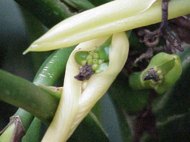 Species: Aglaonema nitidum Family: Araceae Image No. 2